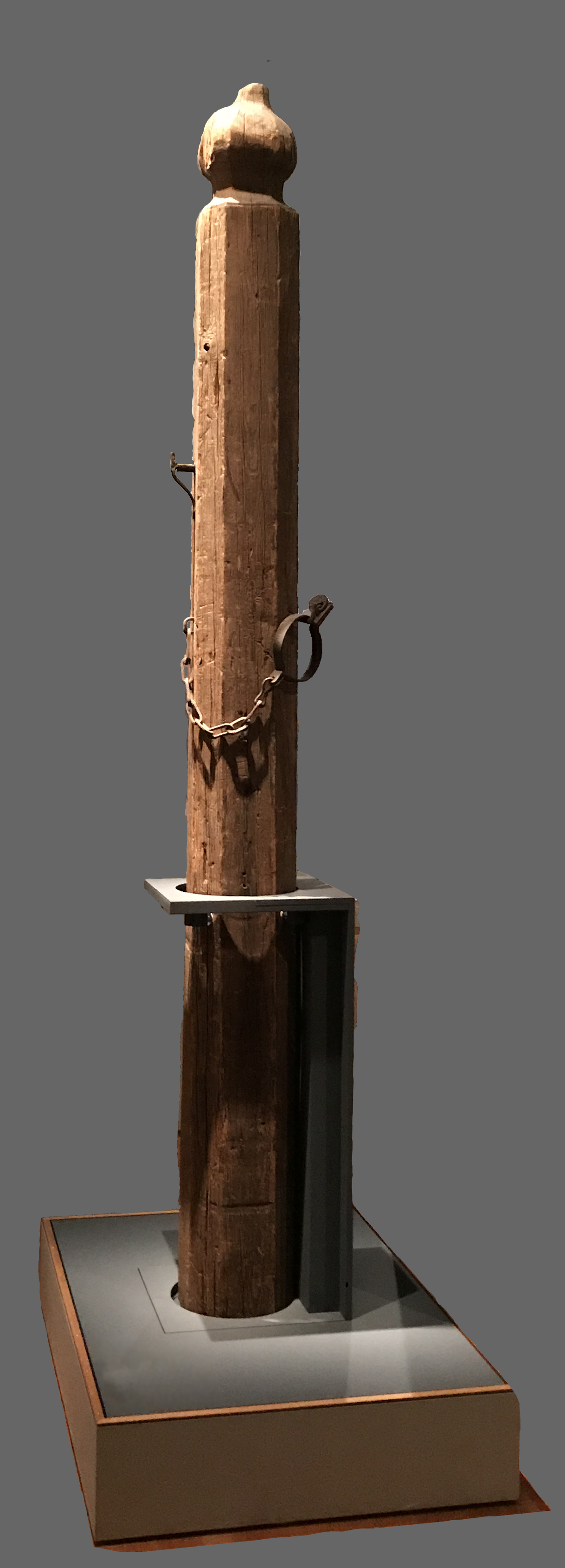 Pillory from Sweden / Dalarna District / Husby Parish